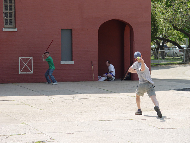 a scene of playing stickball